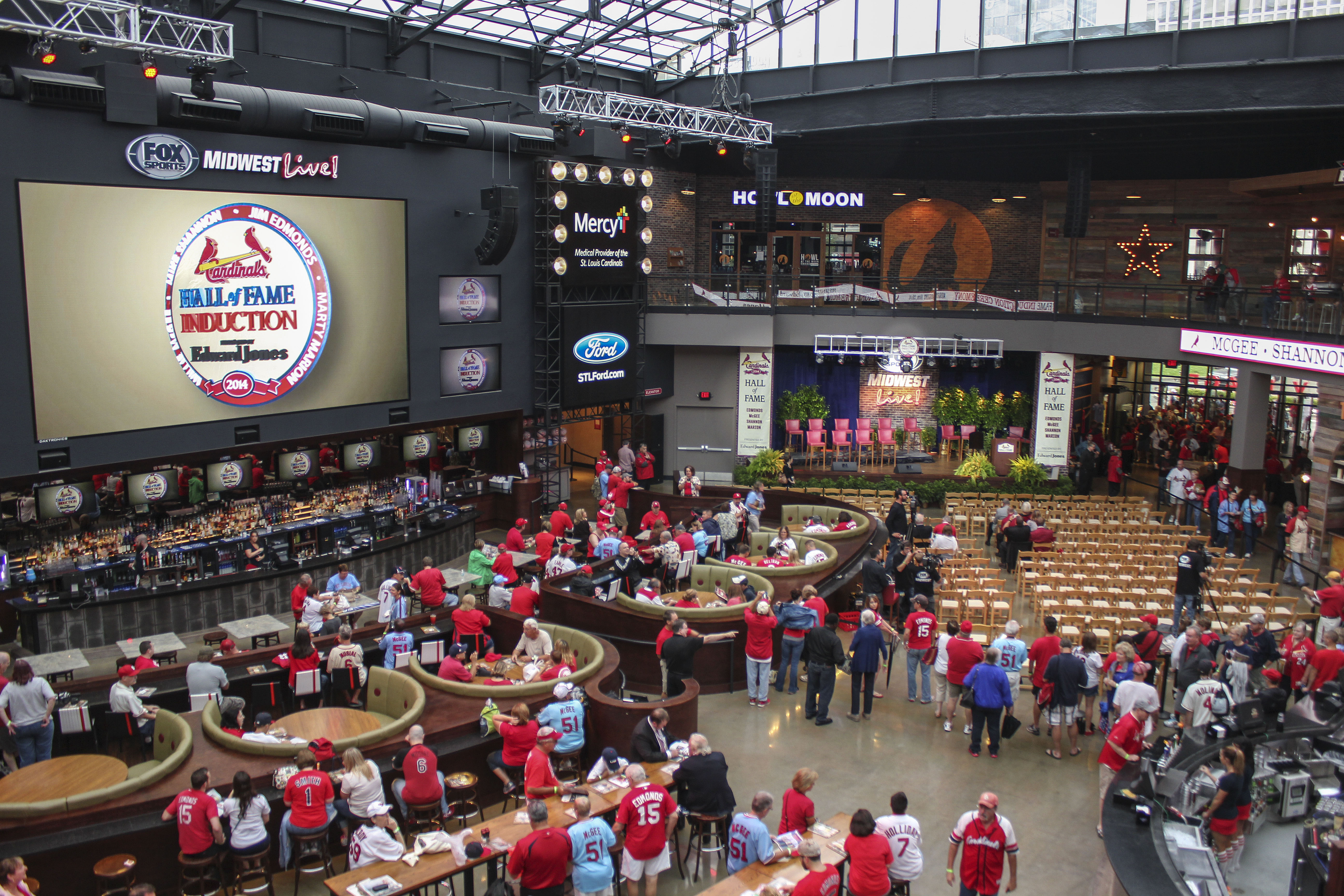 Ballpark Village st.louis.